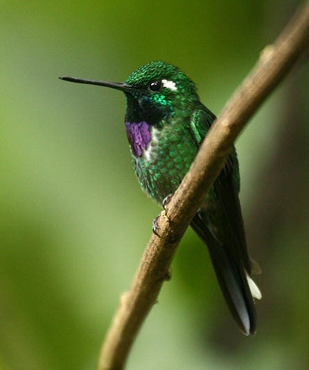 Purple-bibbed Whitetip (Urosticte benjamini). A male at Tandayapa Bird Lodge, NW Ecuador 3/11/2007